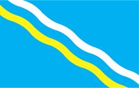 Flag of Saksi Parish (1998–2005).